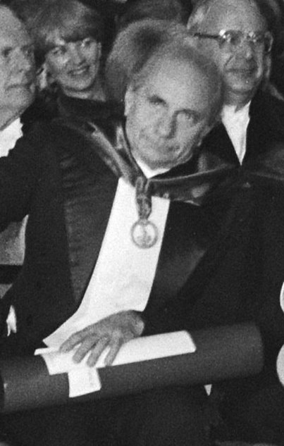 Georges Duby in Amsterdam, 1980. Honorary doctorate, Vrije Universiteit Amsterdam